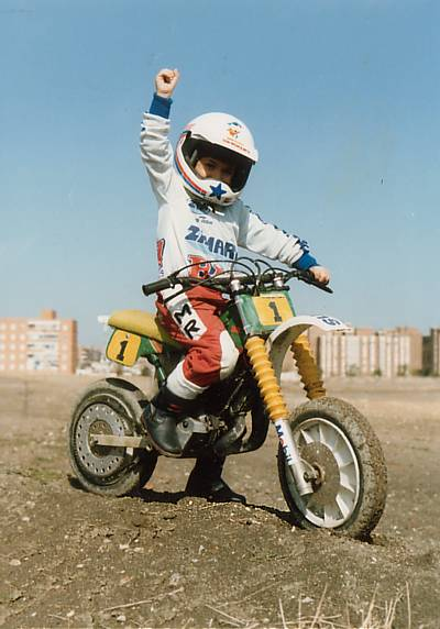 Manu Rivas during his initial years as a professional Motocross / Supercross rider.